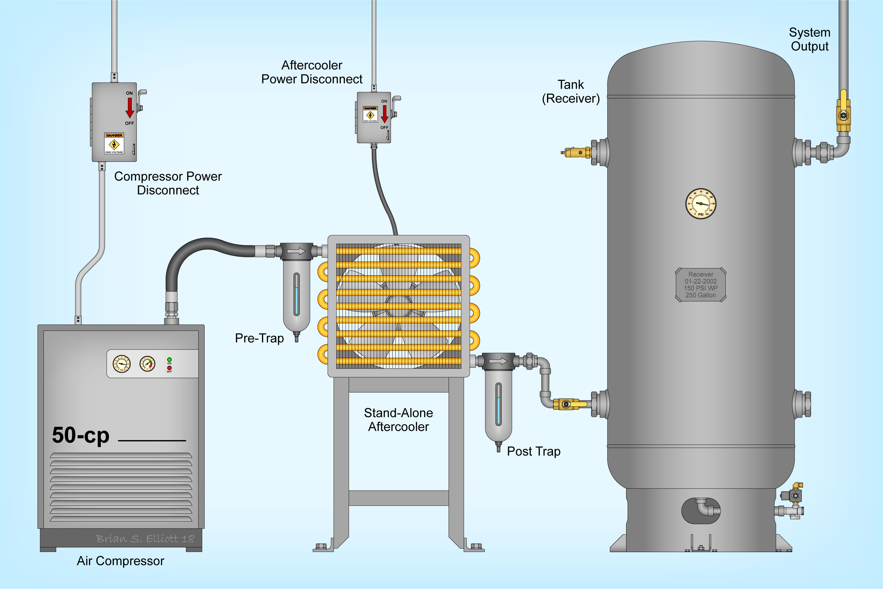 Stand-alone aftercooler shown within a component based compressed air system.